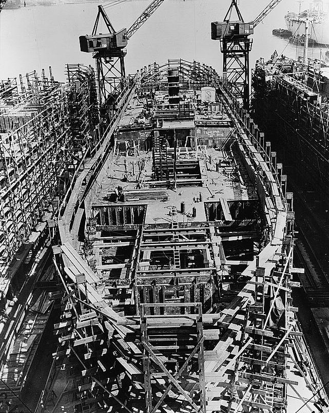 Construction of a Liberty ship at Bethlehem-Fairfield Shipyards Inc., Baltimore, Maryland (USA) in March/April 1943. Original caption: “On the tenth day 1575 tons of ship are in place. The lower deck is being completed and the upper deck amidship is erected with the inner stack installed.”